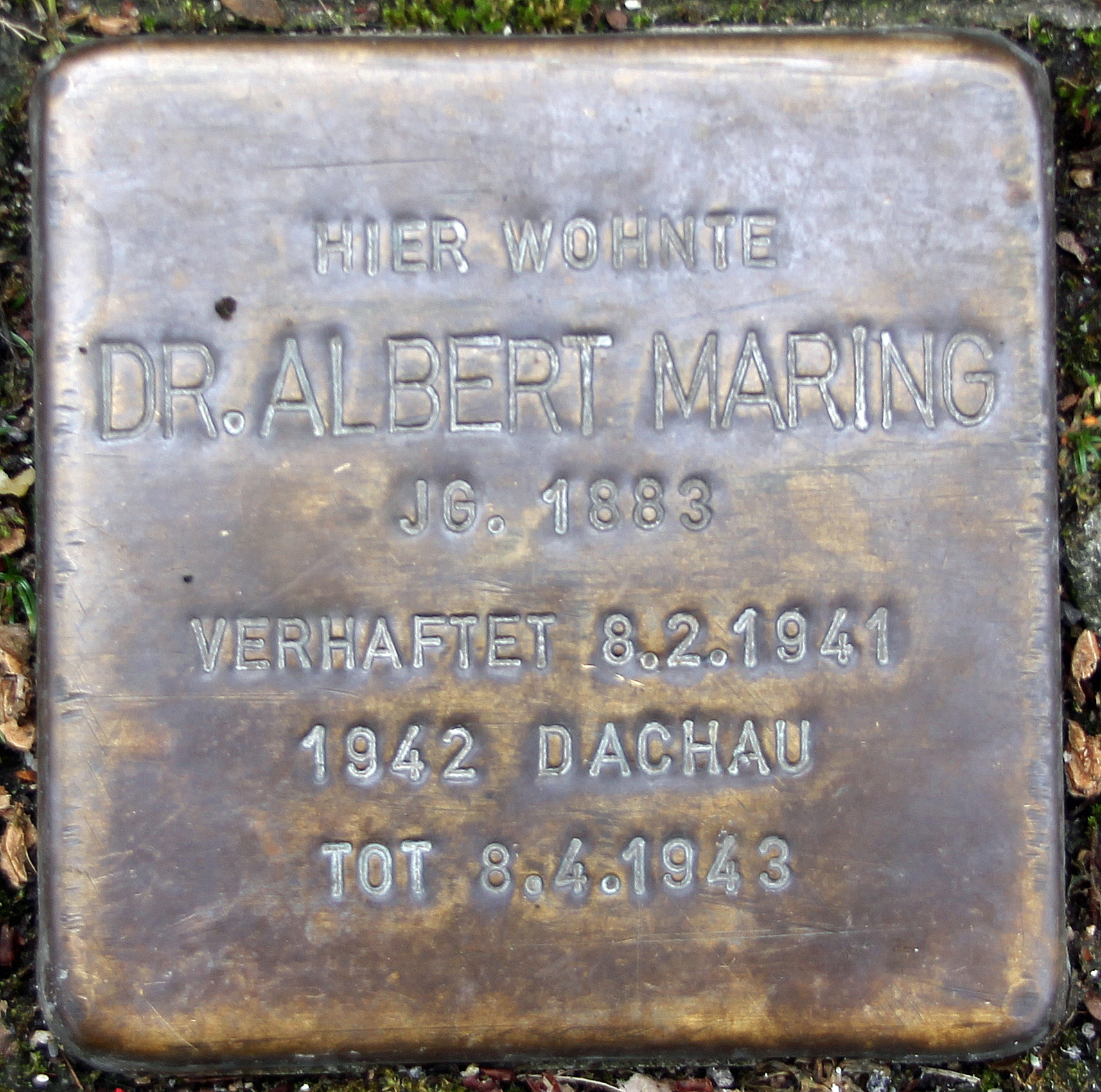 Stolperstein in Koblenz